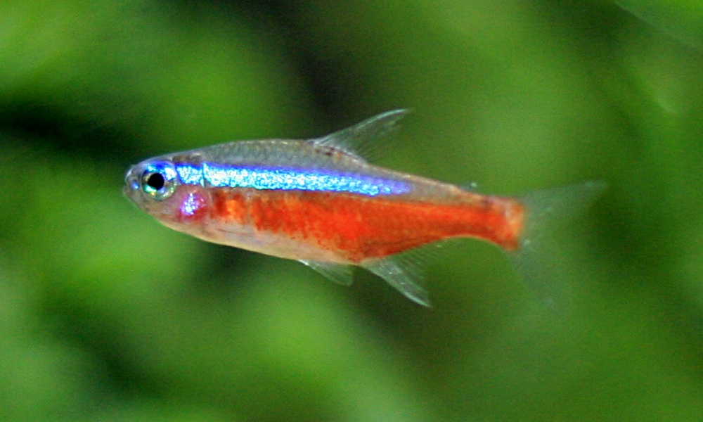 Cardinal tetra Paracheirodon axelrodi (size about 2 cm standard length)